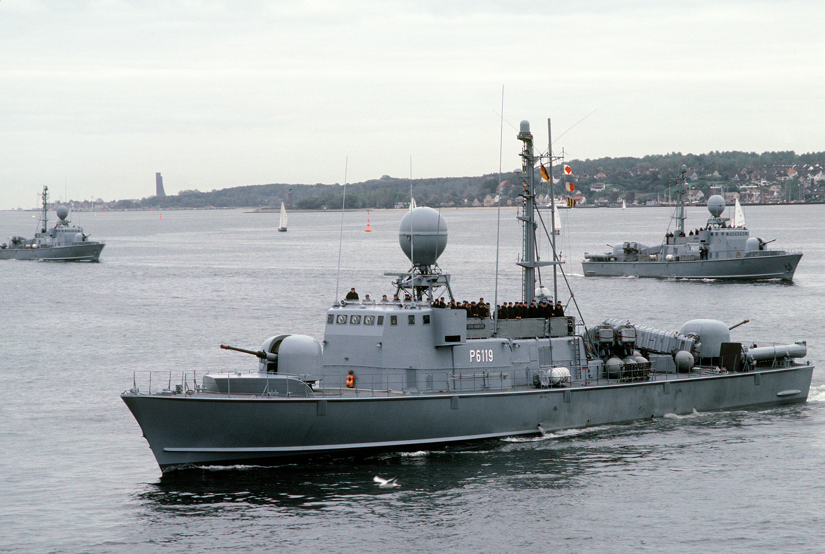 Type 143 fast attack craft missile boats of the West German Navy pass in review during a port visit by the battleship USS Iowa (BB-61) on 20 October 1985 at Kiel, Schleswig-Holstein (Germany). The S69 Habicht (P6119) is in the foreground.